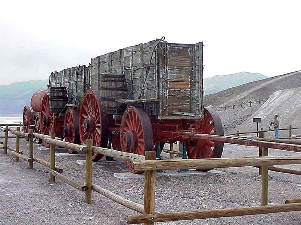 Image title: Twenty-mule team wagons in Death Valley Image from Public domain images website